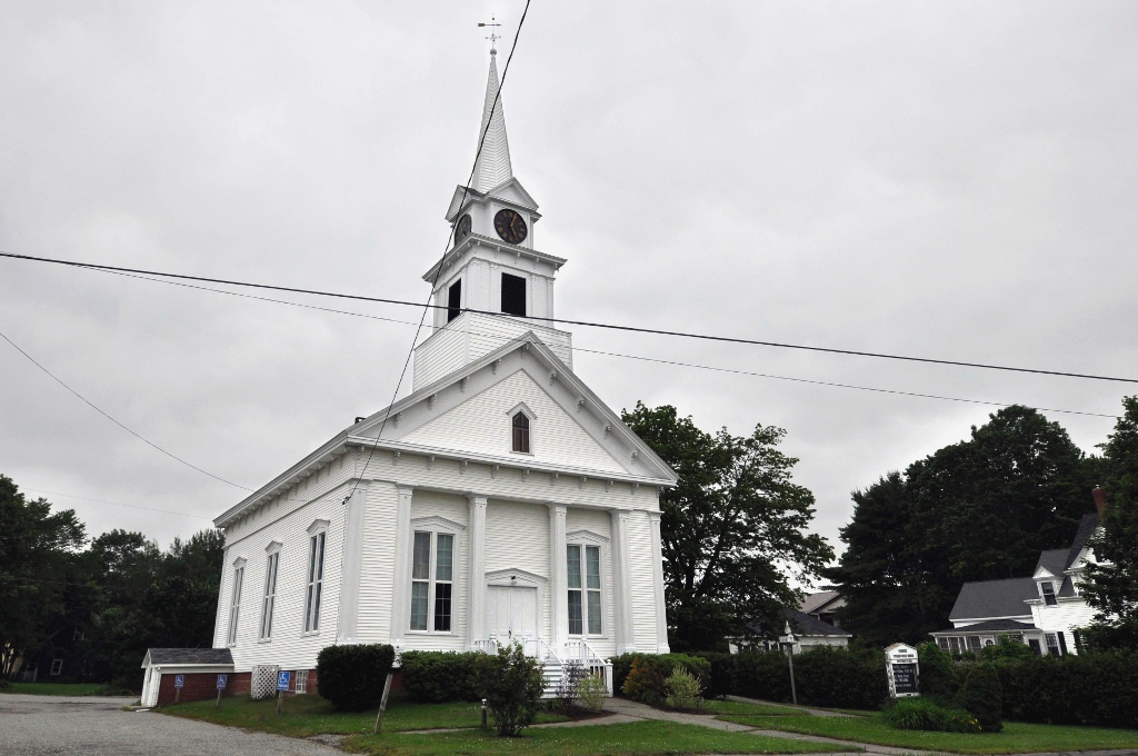 The congregational church in Milbridge, Maine